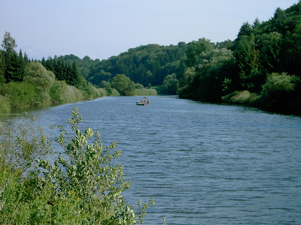 River Lahn near Runkel